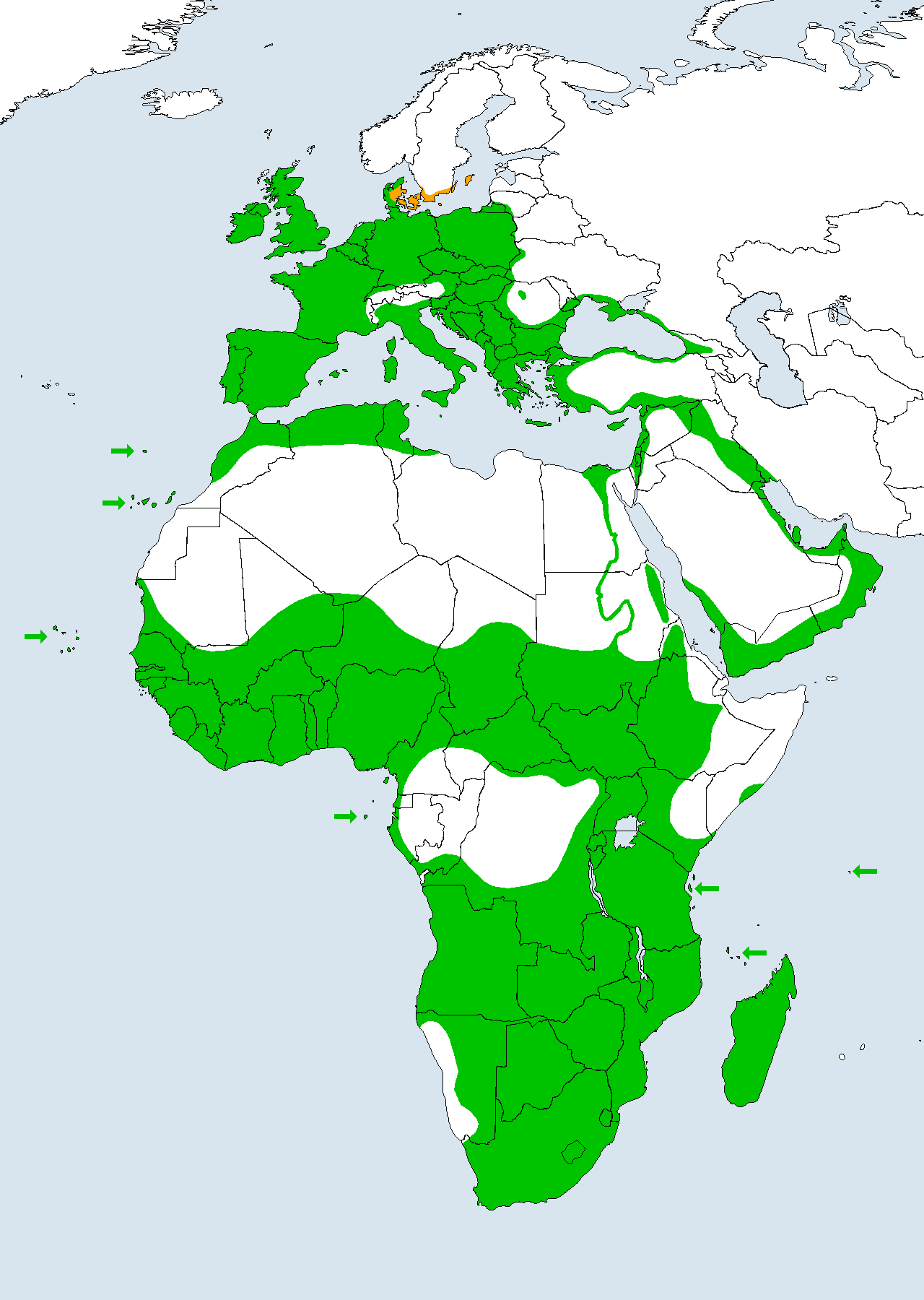 Map showing the range of the barn owl in Europe, the Middle East and Africa